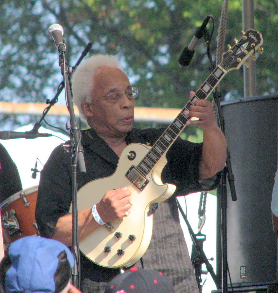 Jazz guitarist George Freeman performing at the 2008 Chicago Jazz Festival